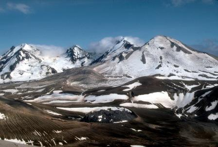 The multiple peaks of Trident Volcano as viewed from the top of Baked Mountain in the Valley of Ten Thousand Smokes, Alaska. Trident Volcano is composed of a cluster of andesite and dacite cones and is the only Katmai group volcano other than Katmai and Novarupta to have had historical activity. The Novarupta lava dome is visible at bottom, center.